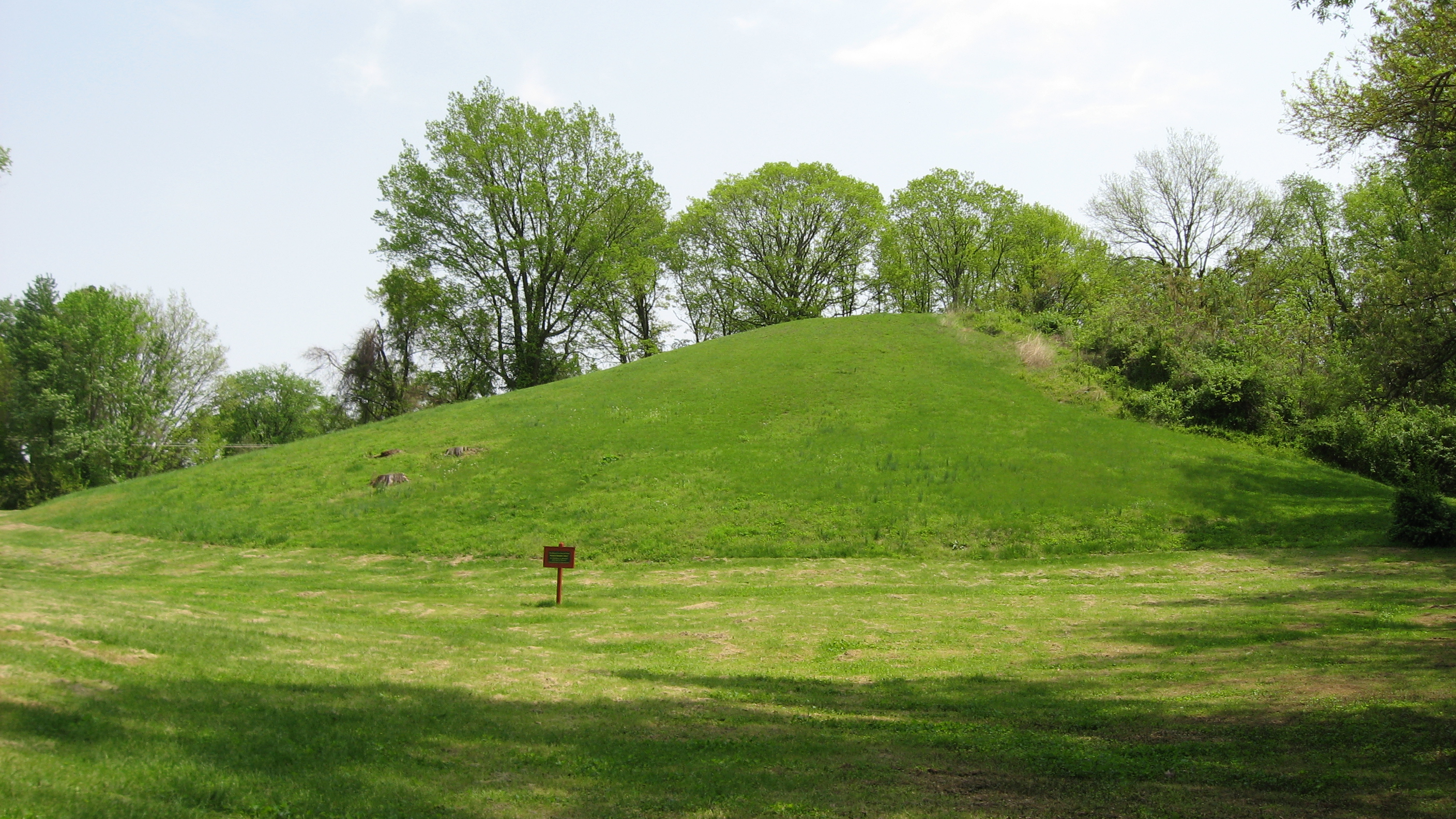 View from the north of Pyramid Mound, located off Wabash Avenue in Vincennes, Indiana, United States. Once thought to have been a Native American mound, it is now known to be a natural hill used for burial purposes. It is an archaeological site, and as such, it is listed on the National Register of Historic Places.